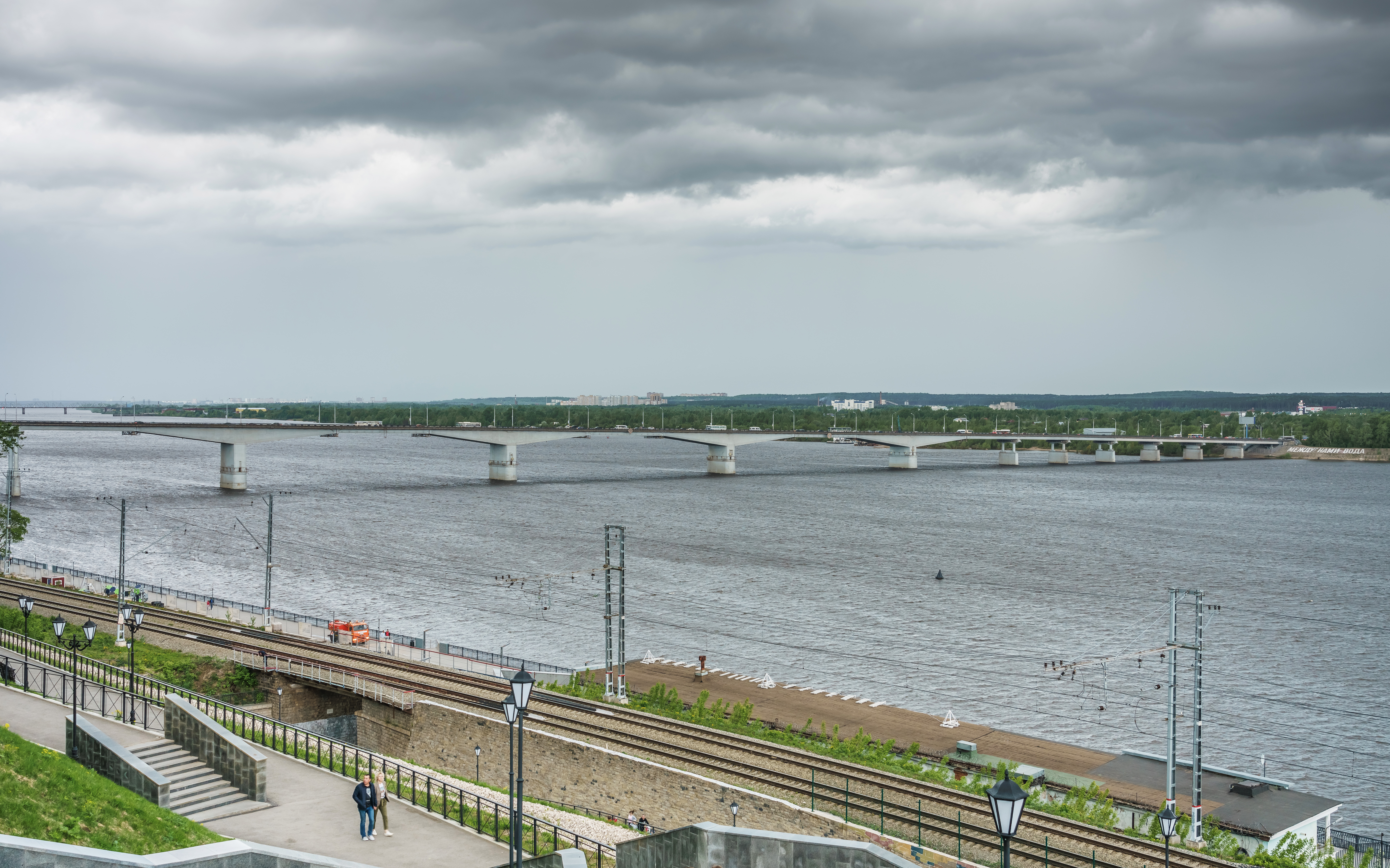 Kama River promenade and Kommunalny Bridge in Perm, Russia